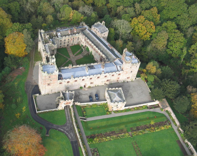 Naworth Castle, also known as, or recorded in historical documents as "Naward", is a castle in Cumbria, England near the town of Brampton.